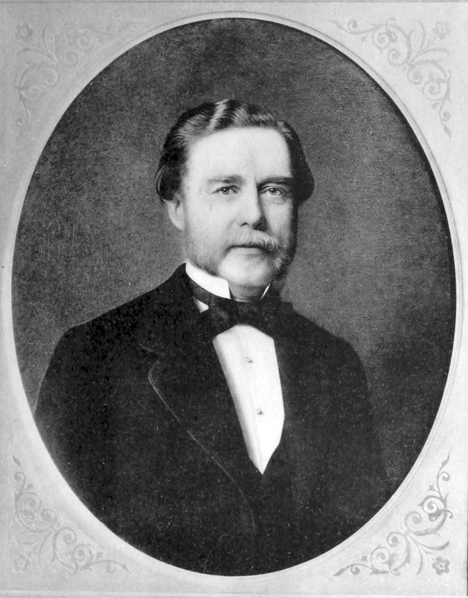 Carl Jacob Rossander (1828-1901)